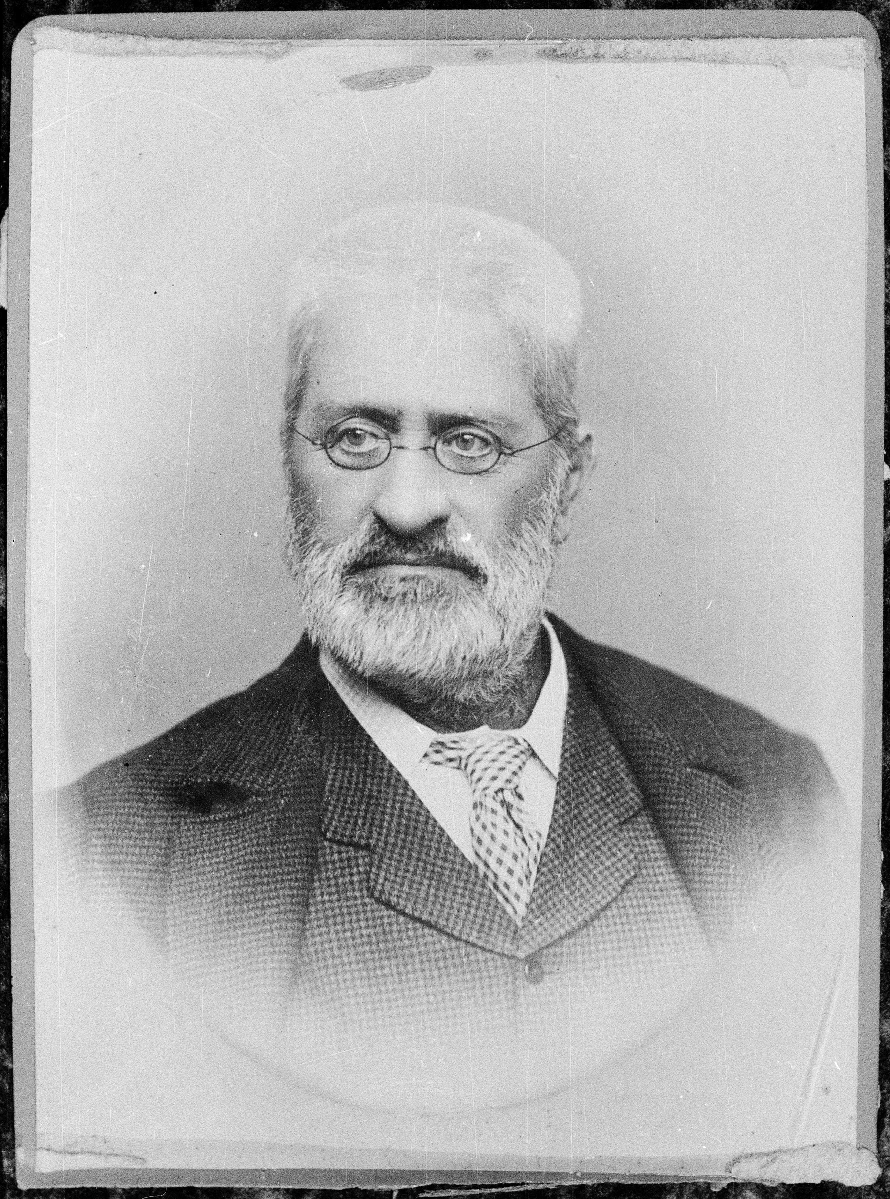 Walter Baldock Durrant Mantell, ca 1870, photographed by WH Clarke, General Assembly Library Collection, Alexander Turnbull Library